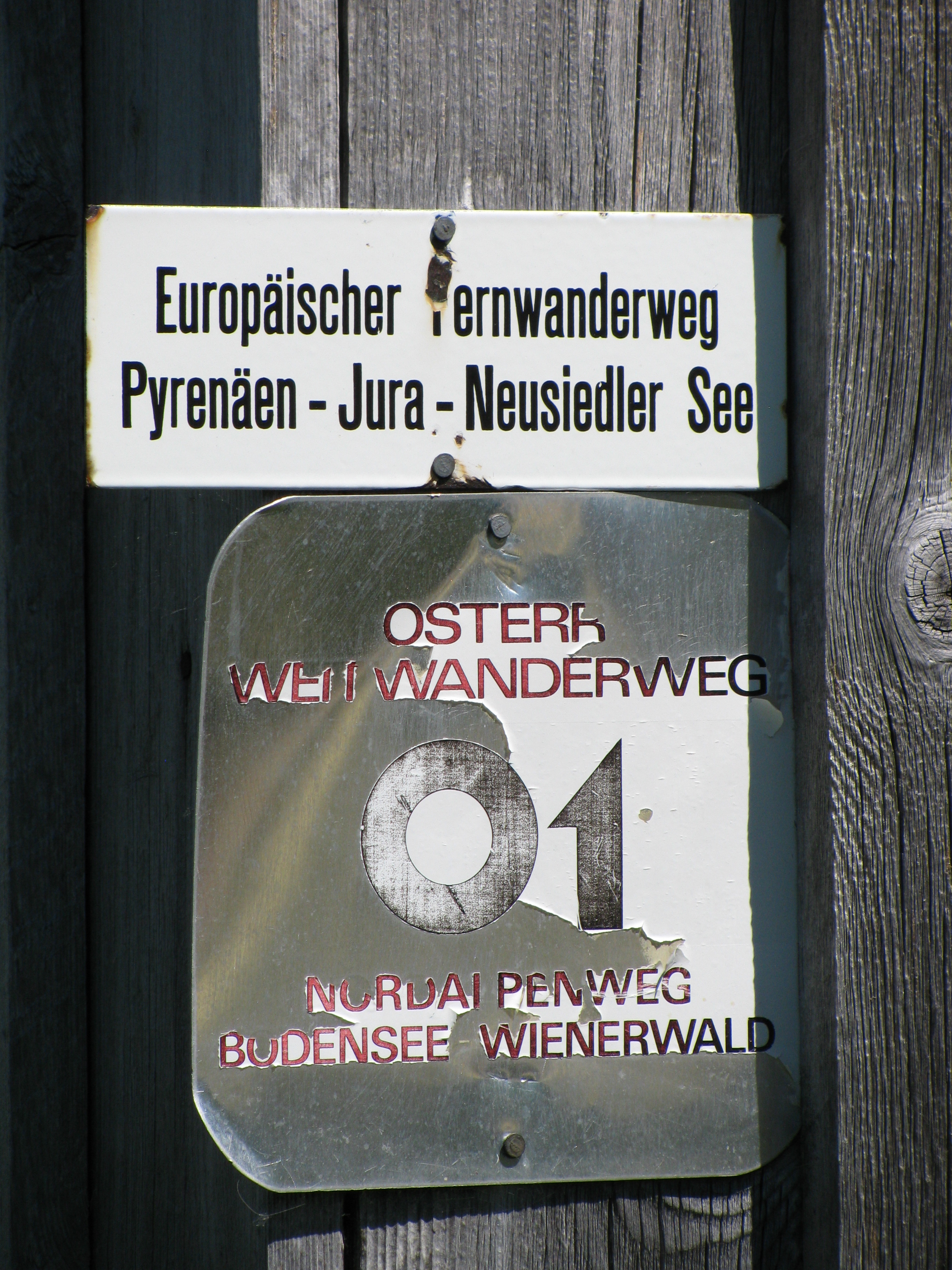 Austria - Vorarlberg - district Bludenz - Fontanella - Bartholomäusalpe: long-distance paths trail labels (E4 European long distance path and 'Österreichischer Weitwanderweg 01')